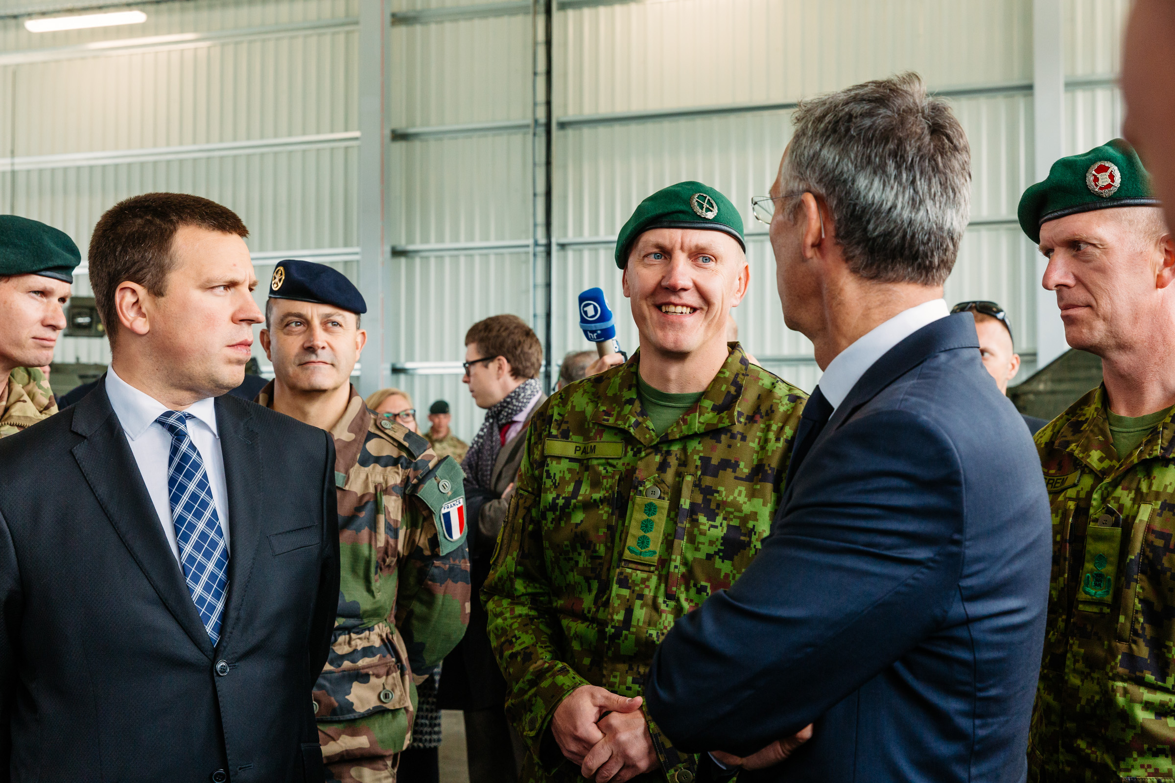 Press trip to visit the allied forces stationed in Tapa. Meetings with NATO units and key figures from the Estonian defence and allied forces. On foreground from the left: Jüri Ratas, Veiko-Vello Palm, Jens Stoltenberg & Martin Herem